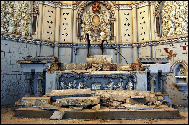 Mount St Mary's smashed altar Mount Saint Mary's church opened in 1857 and was funded by the Irish Community. It stands in a district of Leeds traditionally known as the Bank. The Bank had become home to a large community of Irish Catholics who had emigrated to Leeds to seek work building canals and railways. The church was also known as the Famine Church, the original chapel was established at a time when Ireland was only beginning to recover from the Great Hunger brought on by the failure of the potato crop in successive years from 1845 to 1851. During the 1970's and 80's the congregation dwindled and the cost of keeping the church open wasn't feasible. The church closed its doors for the last time in 1989 and was deconsecrated by the Catholic church. To see many more full size pictures of my Mount St Mary's collection see Here*